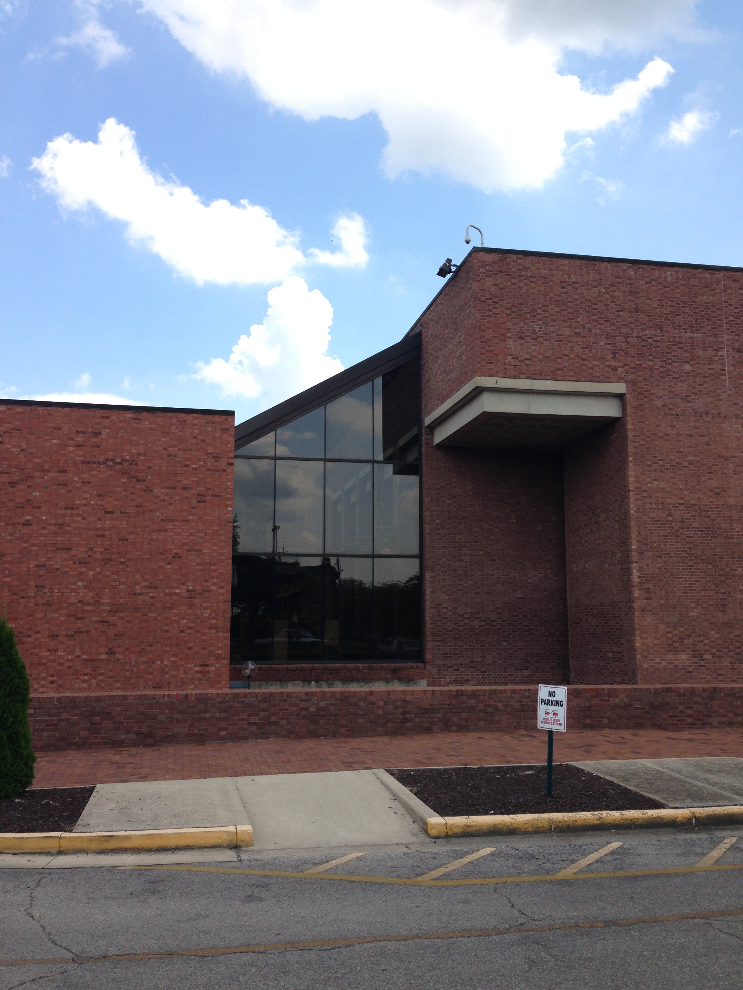 This image shows the point at which the Pei designed building is joined with the 1987 design by James K Paris. The angled glass marks this transition.